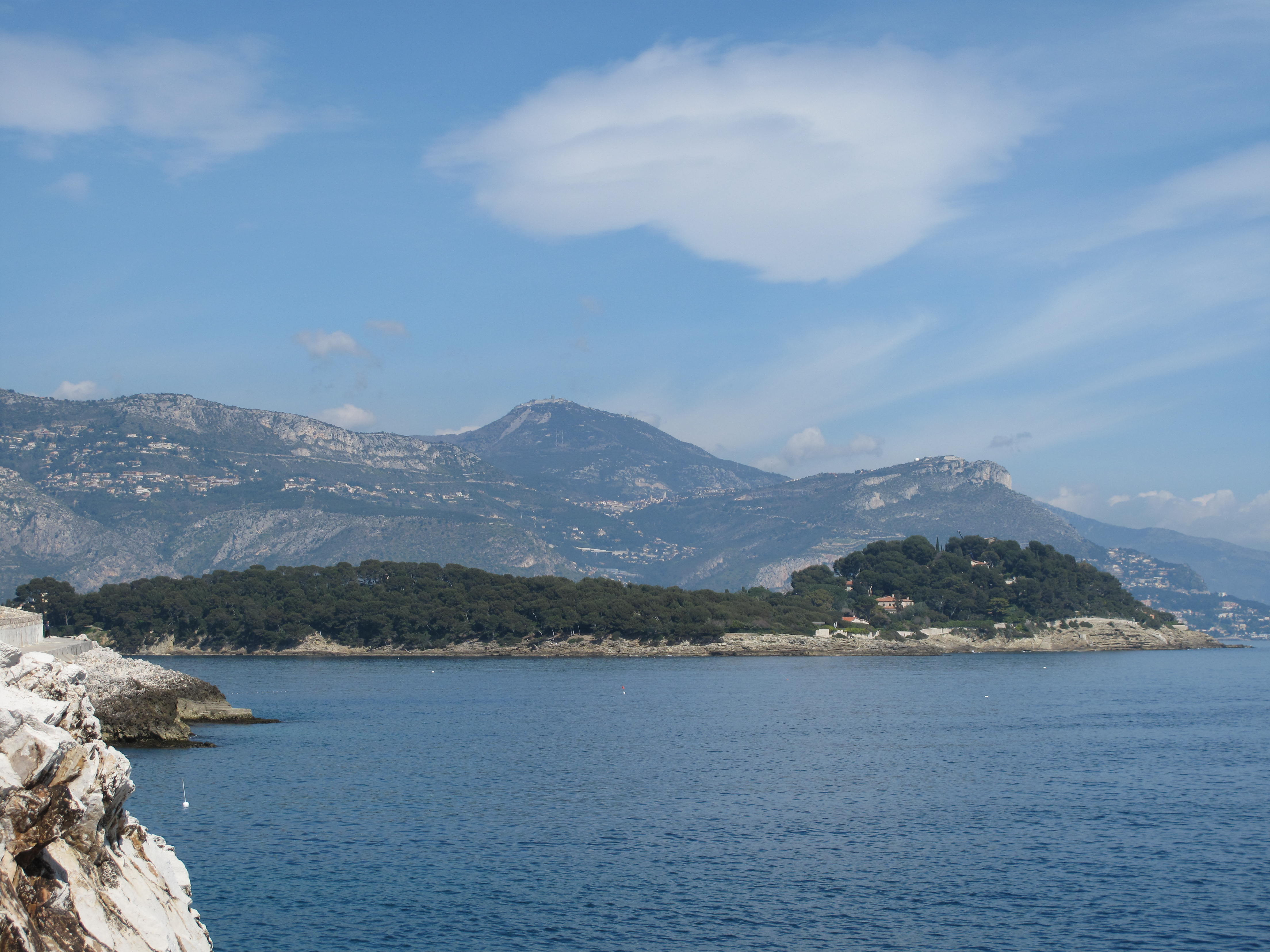 The cape of Saint-Hospice seen from the south, Alpes-Maritimes, France.